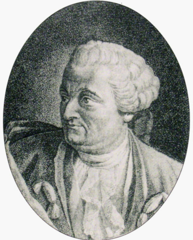 César-François Cassini de Thury (17 June 1714 – 4 September 1784)